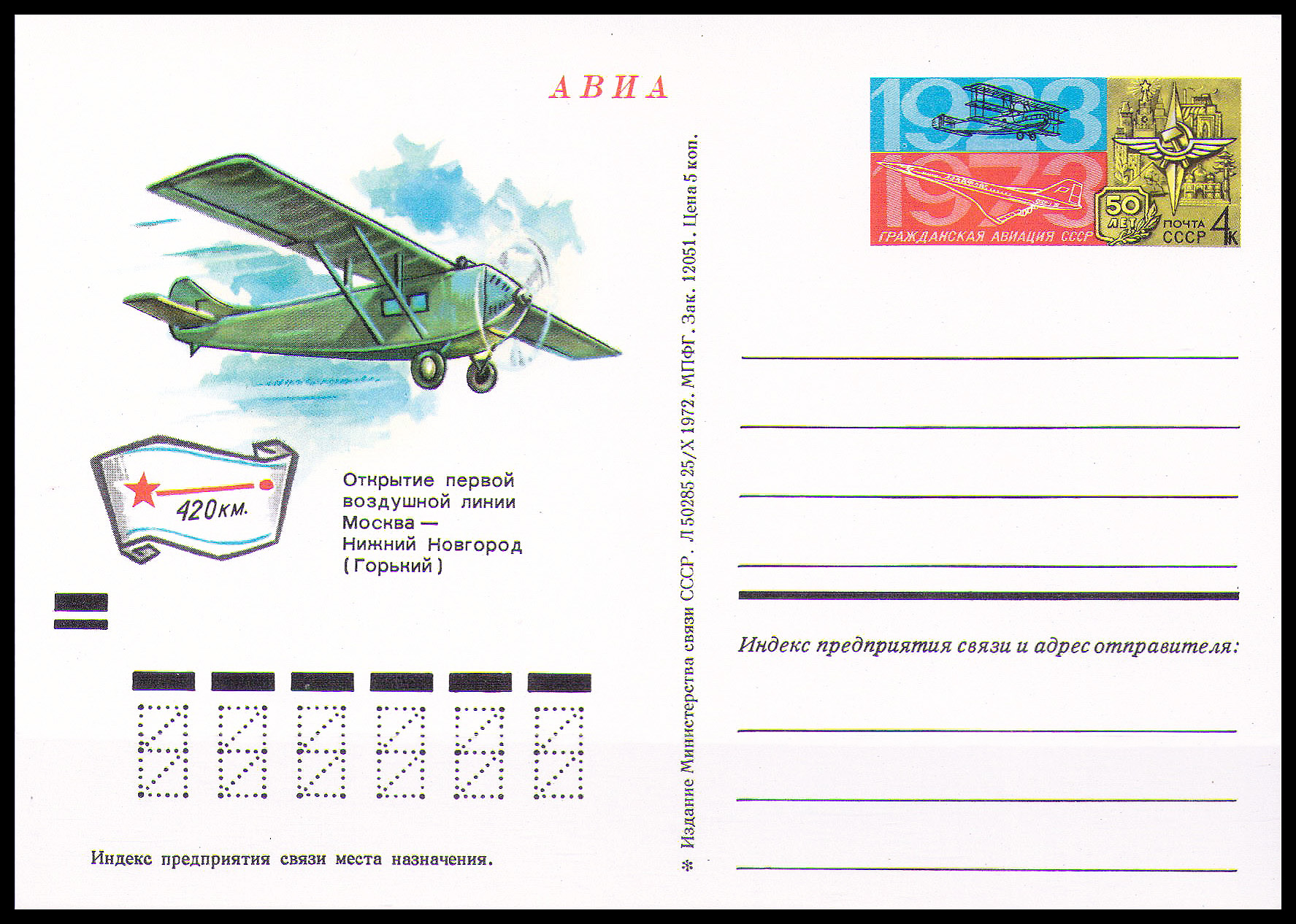 USSR, 1973. Postal card with commemorative stamp. "The 50th Anniversary of Civil Aviation of the USSR" (Catalogue CPA №8). Stamp: Contours of the aircraft "KOMTA" and Tu-144. Aeroflot emblem. Illustration: The Soviet AK-2 aircraft; diagram of a first civil air route. Painter A. Aksamit.